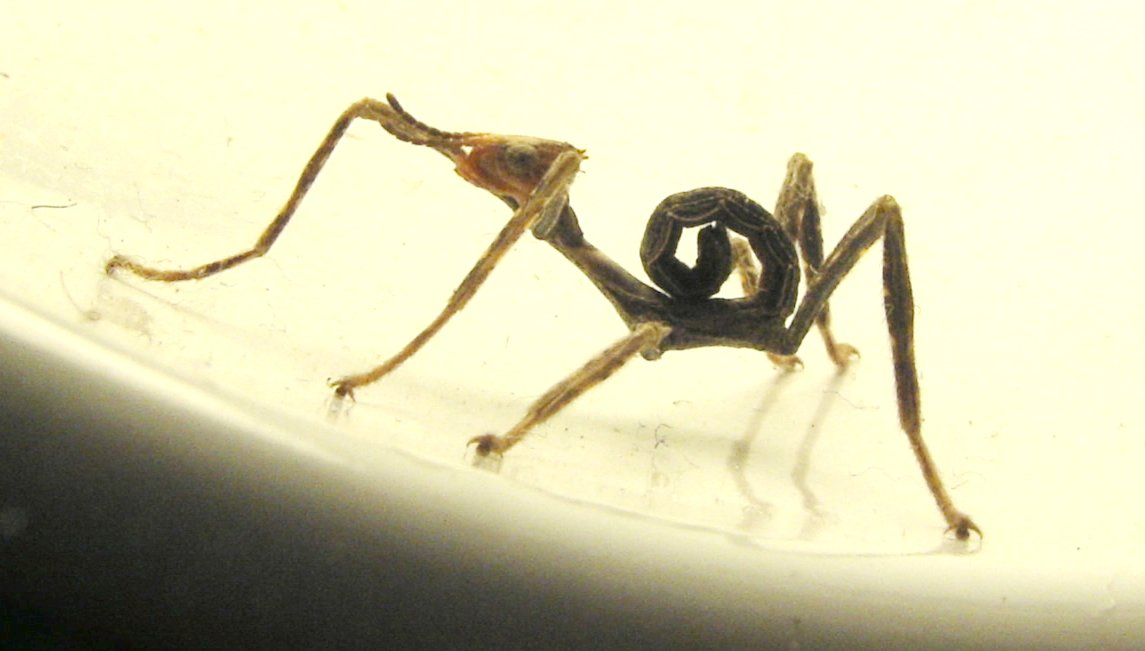 Several days old Extatosoma tiaratum, resting position, viewed from the side. One square on paper is 5 mm.